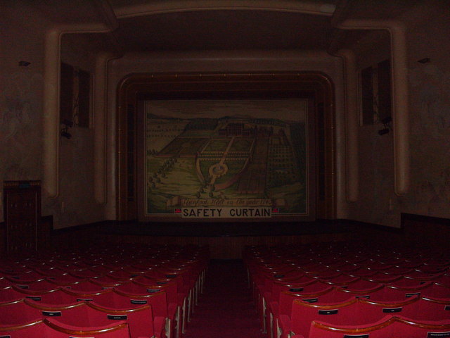 Stanford Hall Inside Stanford Hall Theatre